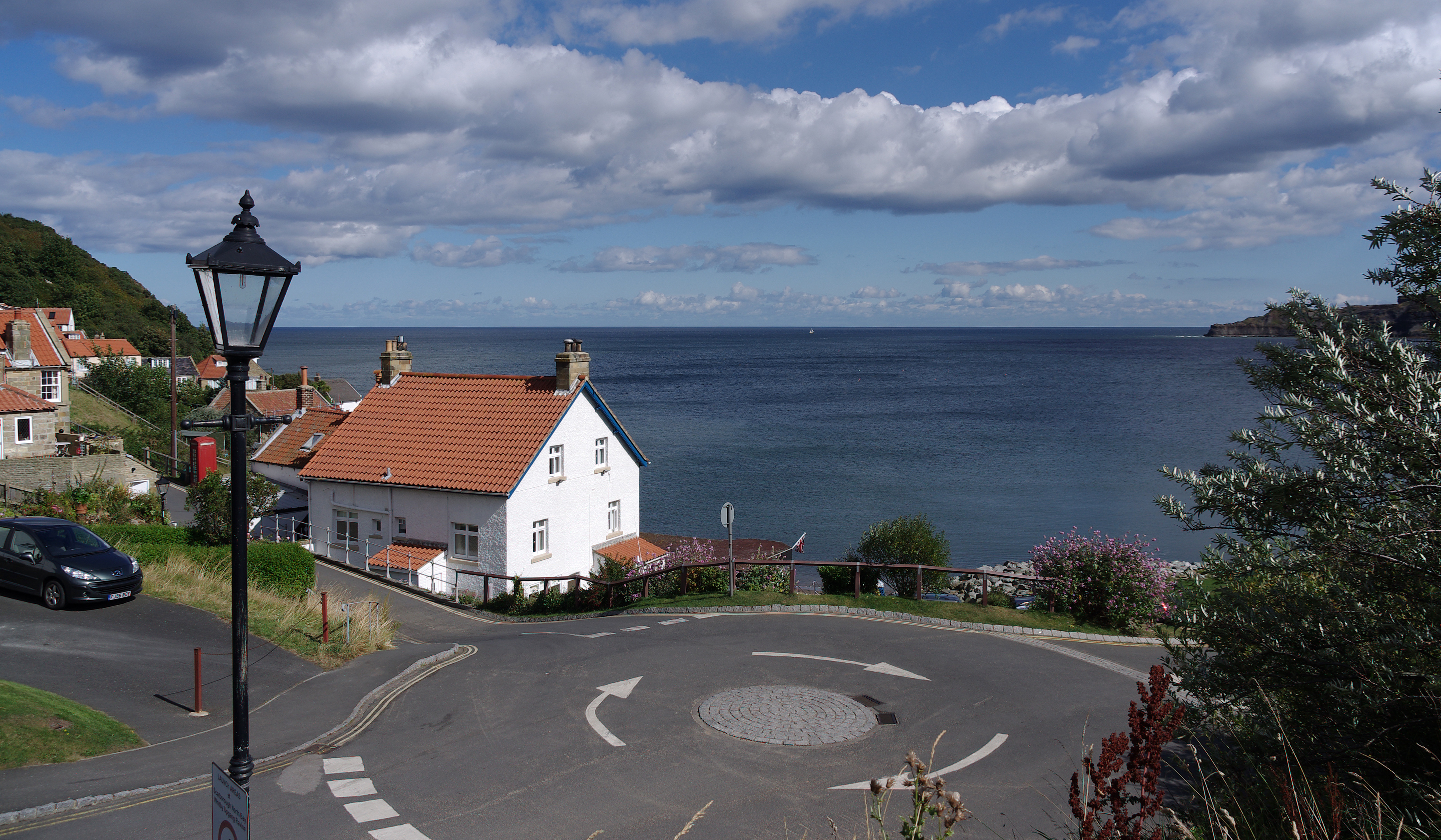 Runswick Bay on the coast of North Yorkshire, near Staithes.